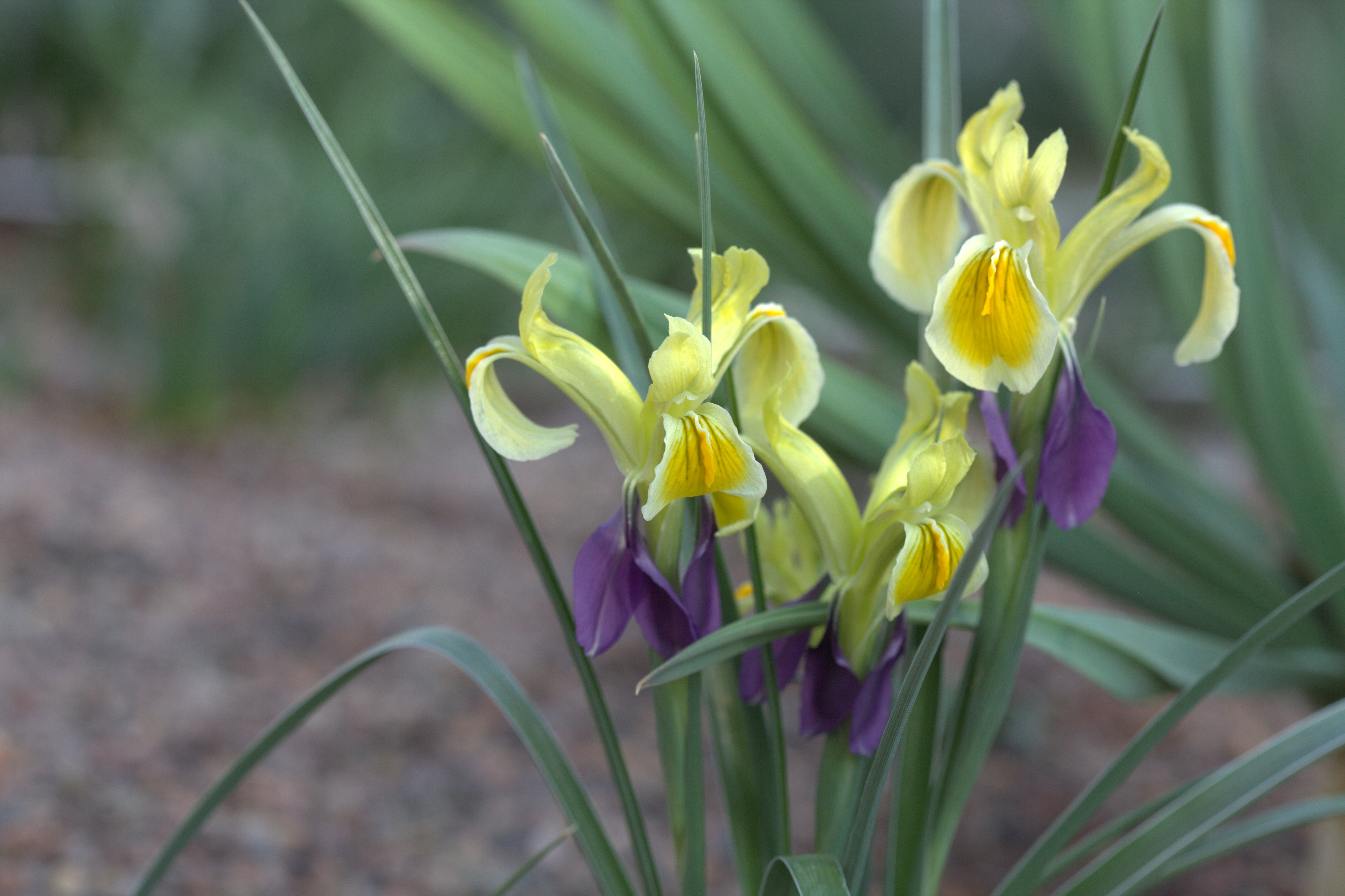 Photo taken at Gothenburg botanical garden. Specimen id: 2003-1963 p W Plant collected in 2003 from the wild at T4Z(2) / T4Z 1140.